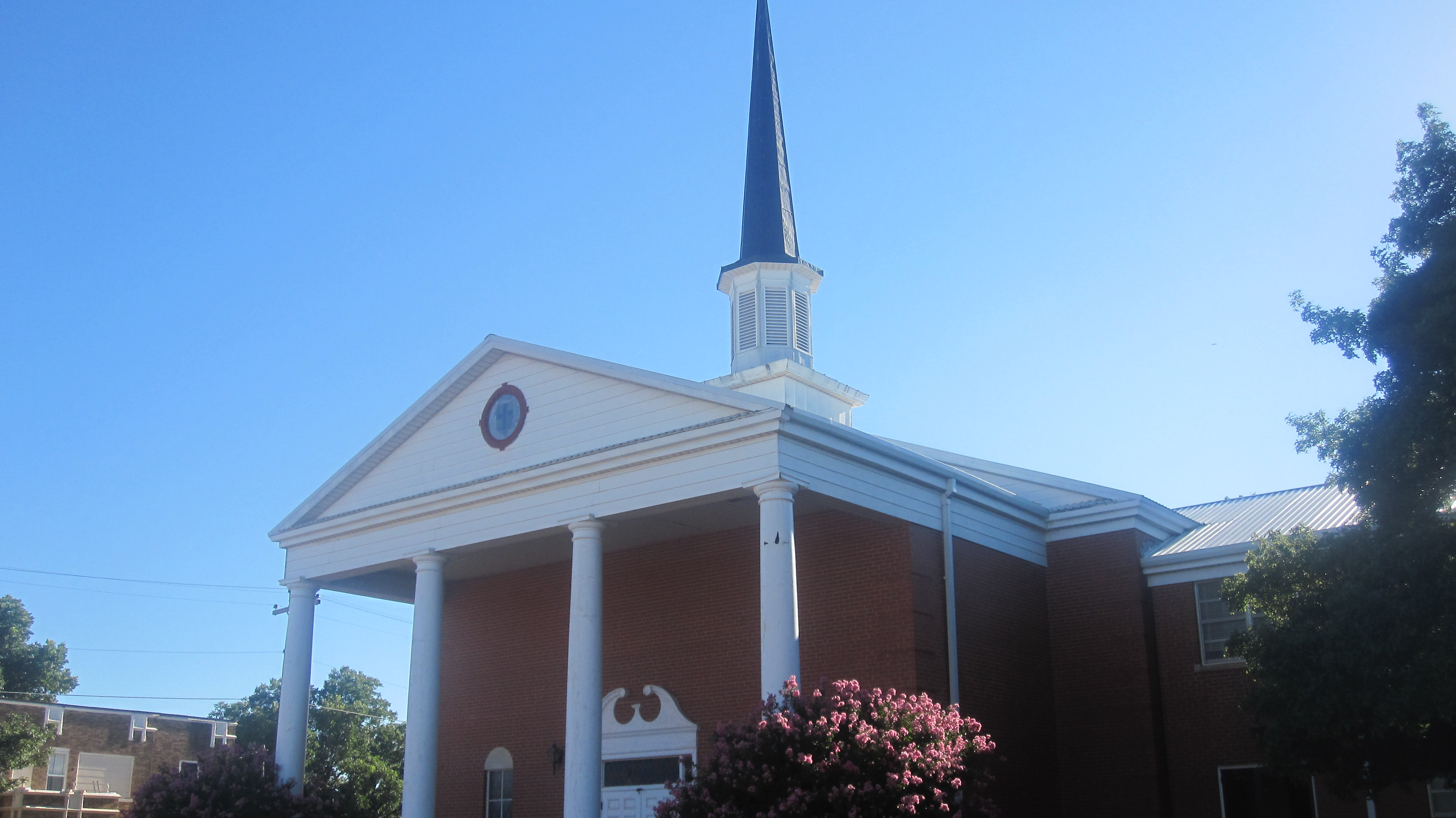 I took photo with Canon camera in Paducah, TX.